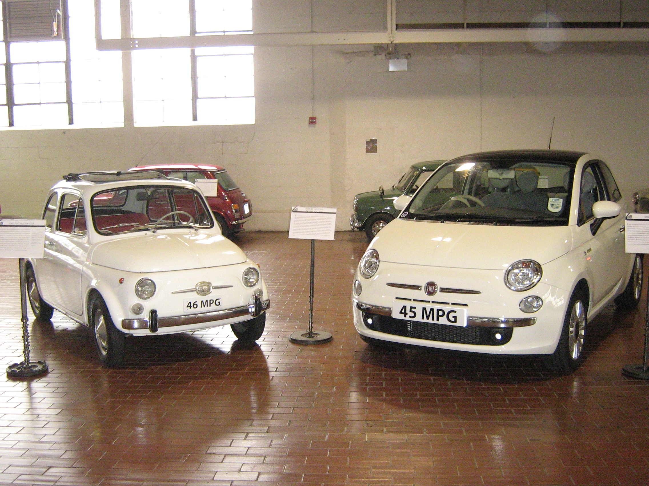 Comparison of the new and old Fiat 500 - 1966 Fiat Nuova 500F and 2008 Fiat 500